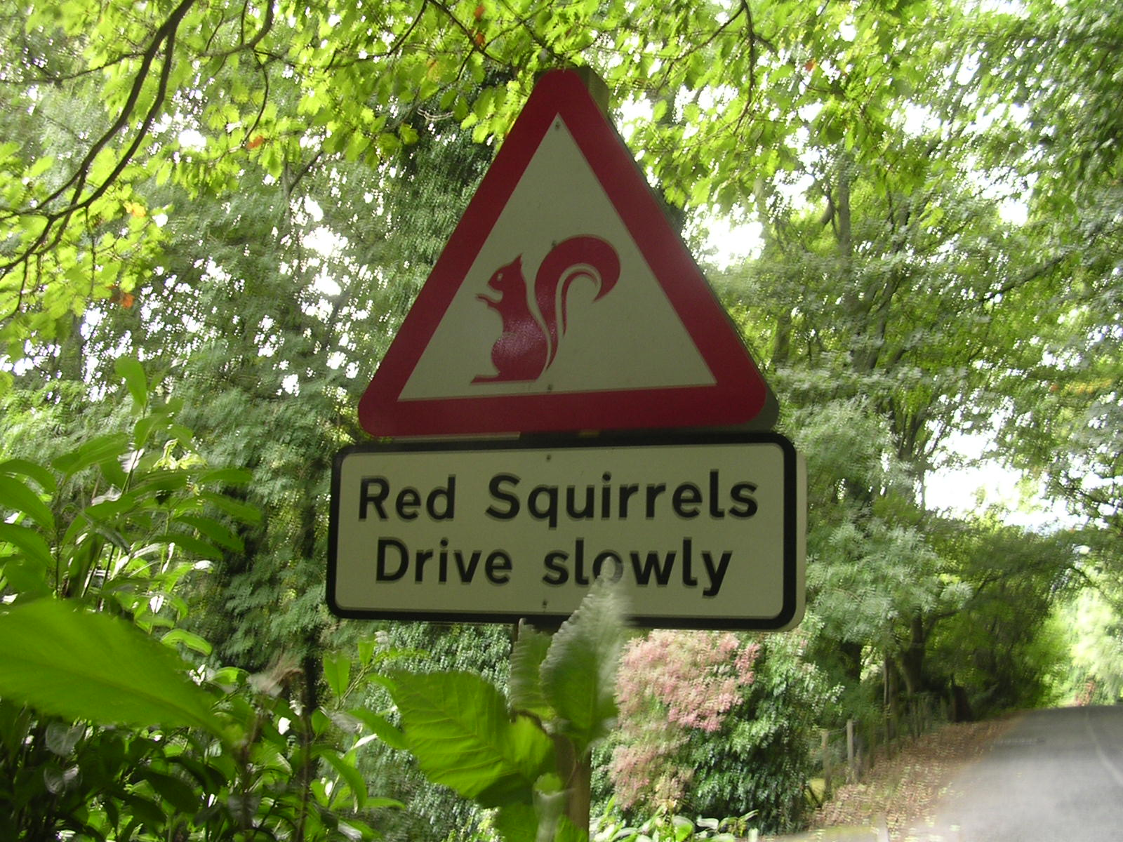 Especially when compared to their grey cousins, who are real petrol-heads and love a quick burn. Recent studies suggest that the common or garden grey squirrel's love of driving as fast as possible is responsible for up to 2% of global CO2 emissions. N.B. Of course, I'm only joking, and I kept über-car under control and did drive slowly. Whereas my friend floored it and ran one over. He also was responsible for this. If you'd like to see the rest of my Lake District photos, use this guest pass.